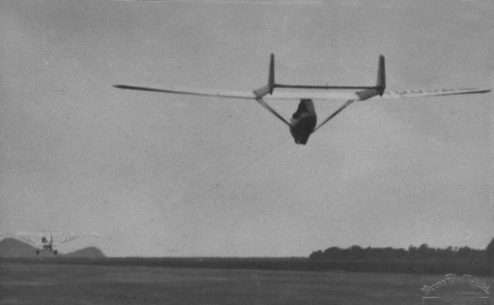 SM-206 sky train．